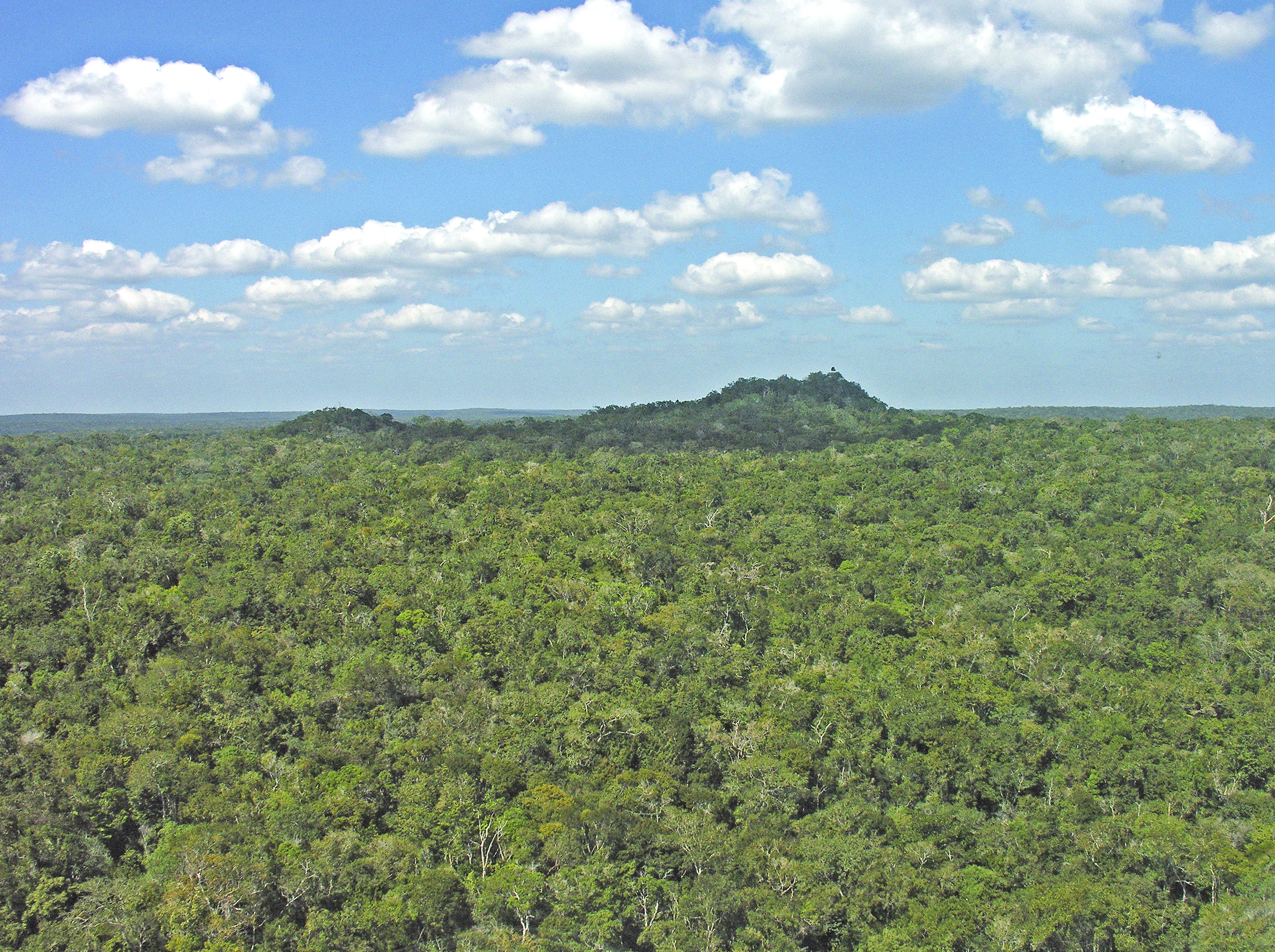 PLEASE, no multi invitations in your comments. DO NOT FEEL YOU HAVE TO COMMENT.Thanks. The hill on the left is El Tigre and the one on the right is La Danta.